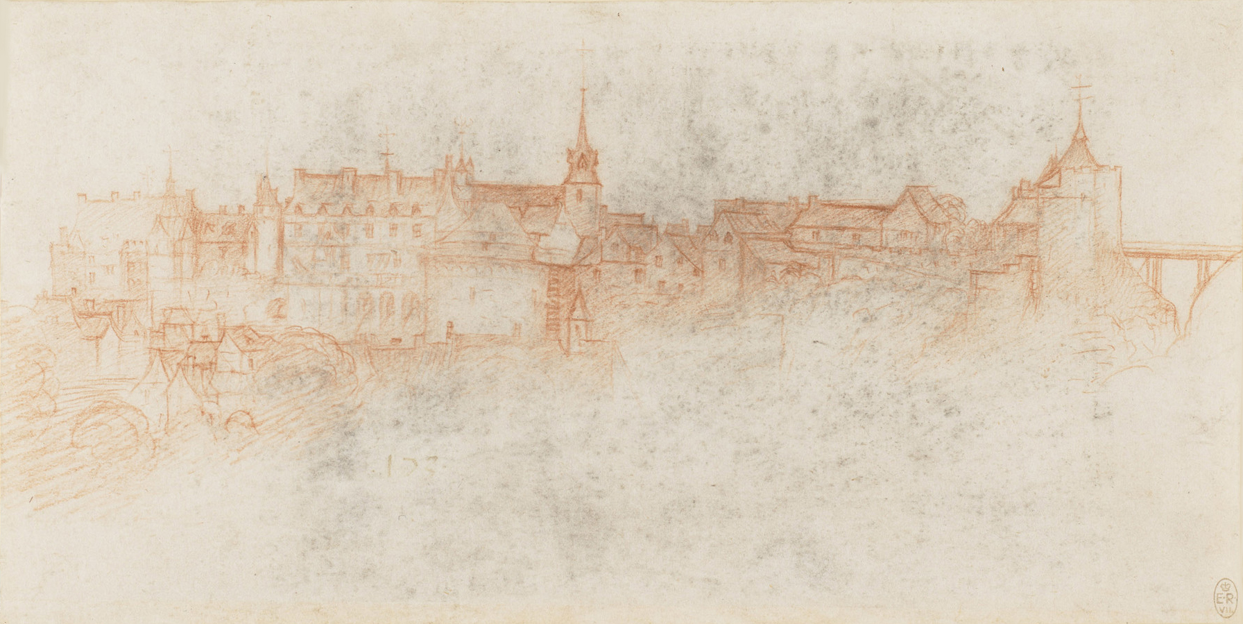 A drawing of the castle of Amboise by Leonardo or Francesco Melzi